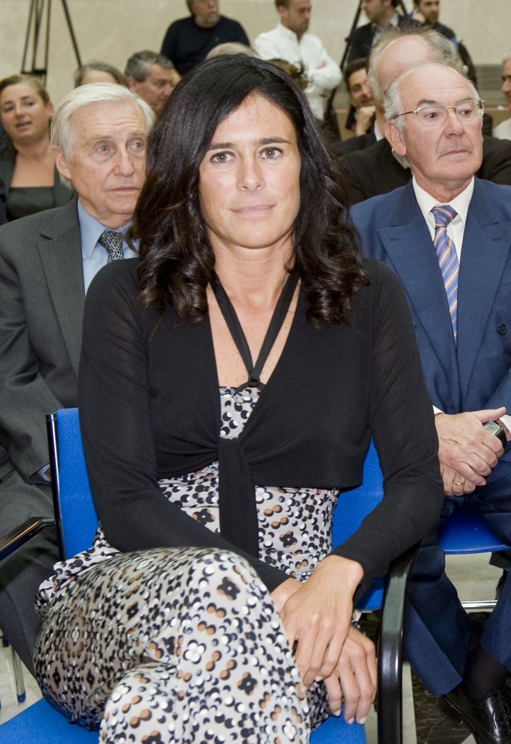 Edurne Pasaban recives Universal Basque award